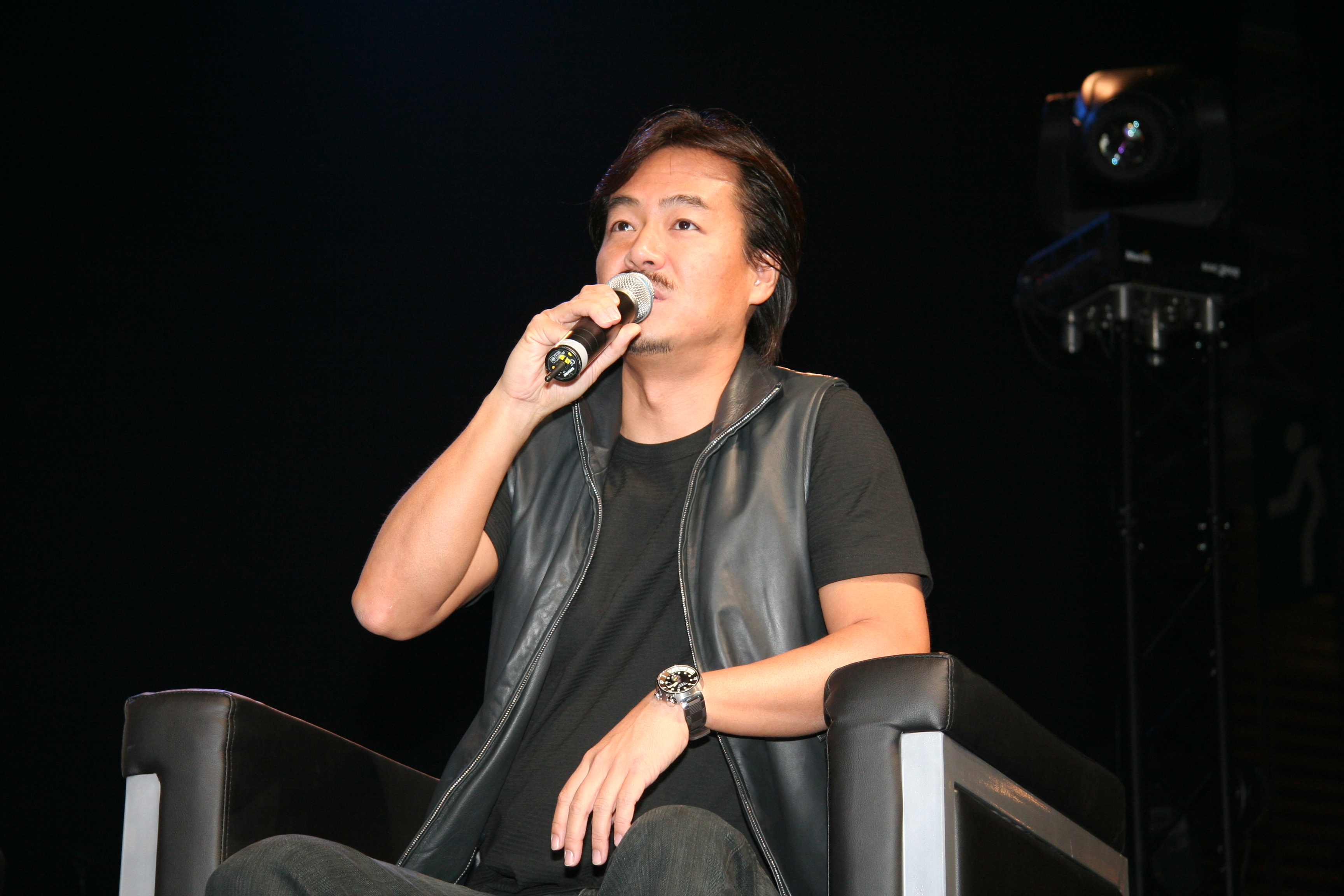 Conference with Hironobu Sakaguchi at Japan Expo 2007 (Paris, France).